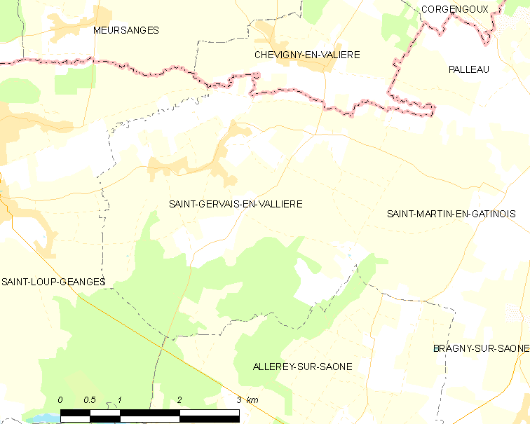 Map of French municipality